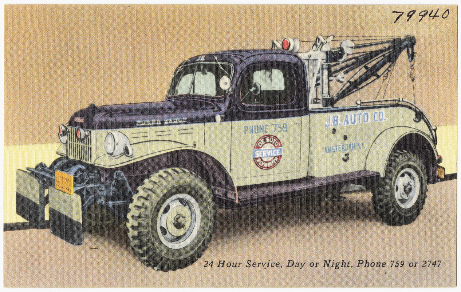 File name: 06_10_004631 Title: J.B. Auto Co. 24 Hour service, day or night, phone 759 or 2747 Created/Published: Tichnor Quality Views Reg. U.S. Pat. Off. Made only by Tichnor Bros., Inc., Boston, Mass. Date issued: 1930-1945 (approximate) Physical description: 1 print (postcard) : linen texture, color ; 3 1/2 x 5 1/2 in. Genre: Postcards Subjects: Automobile service stations Notes: Title from item. Collection: The Tichnor Brothers Collection Location: Boston Public Library, Print Department Rights: No known restrictions